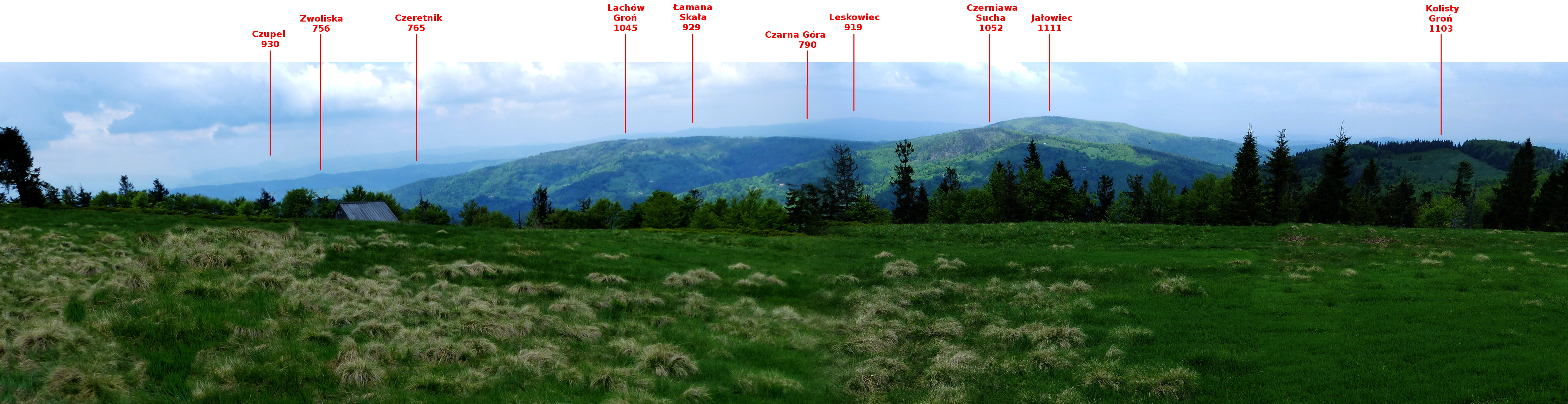 The panorama seen from Mędralowa (1169) in Beskidy